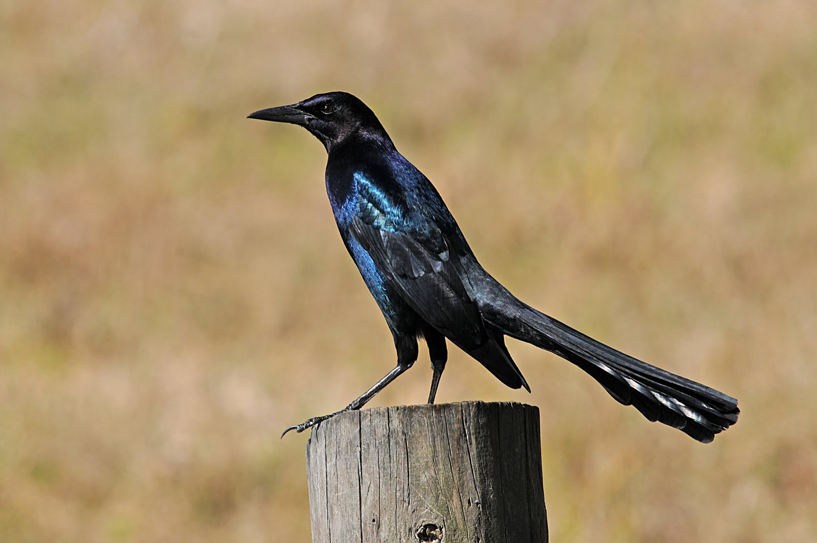 A male Boat-tailed Grackle in Three Lakes Wildlife Management Area, Florida, USA.